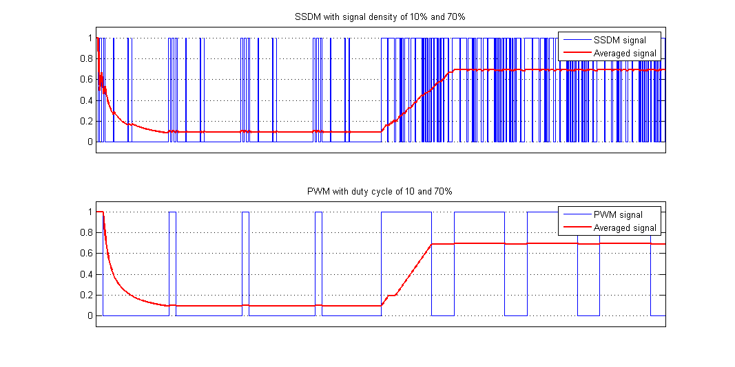 Illustrates the fundamental differences between SSDM and PWM signals at two different power levels, 10 and 70%.